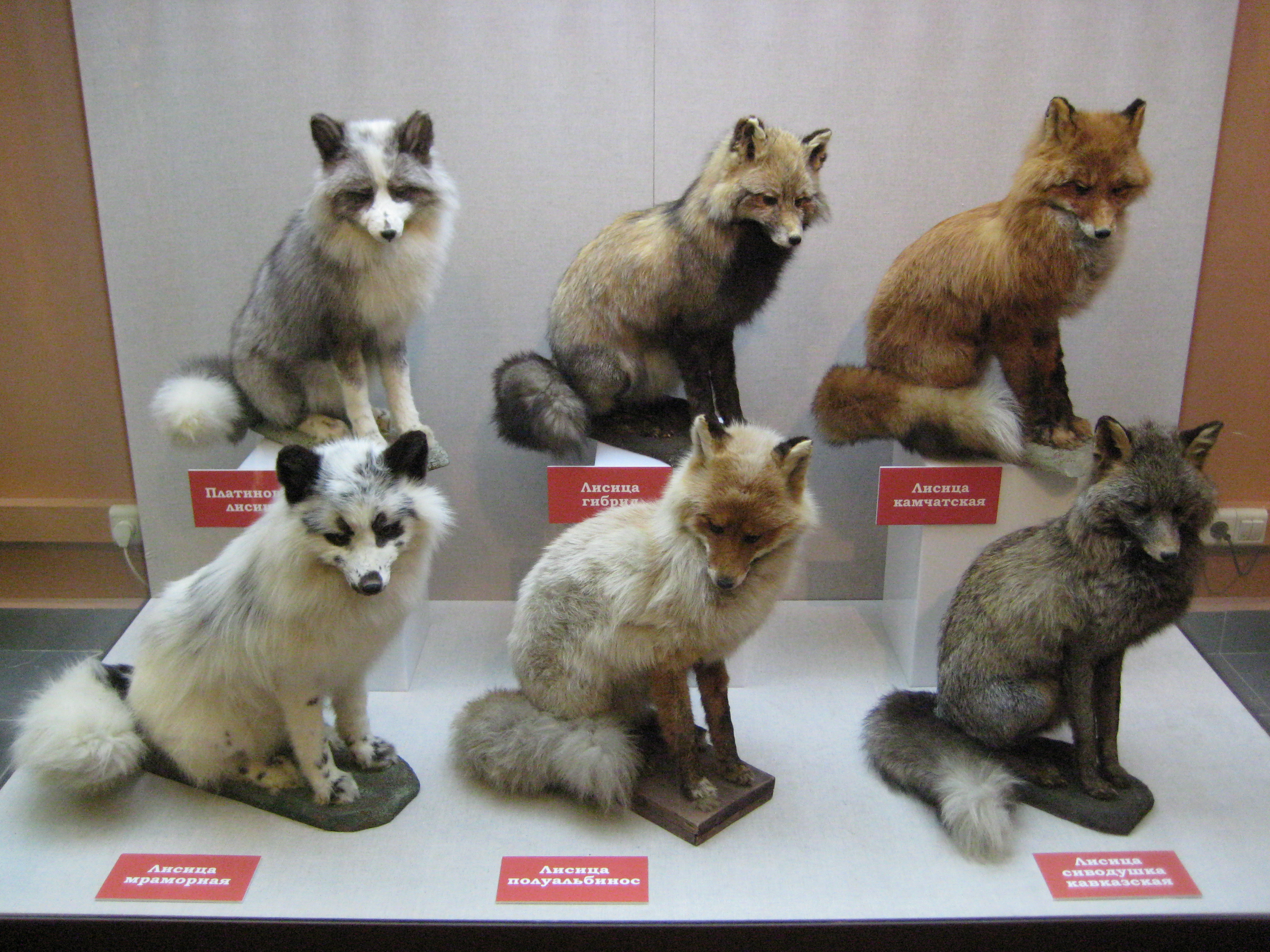 Various taxidermied red fox colour variations